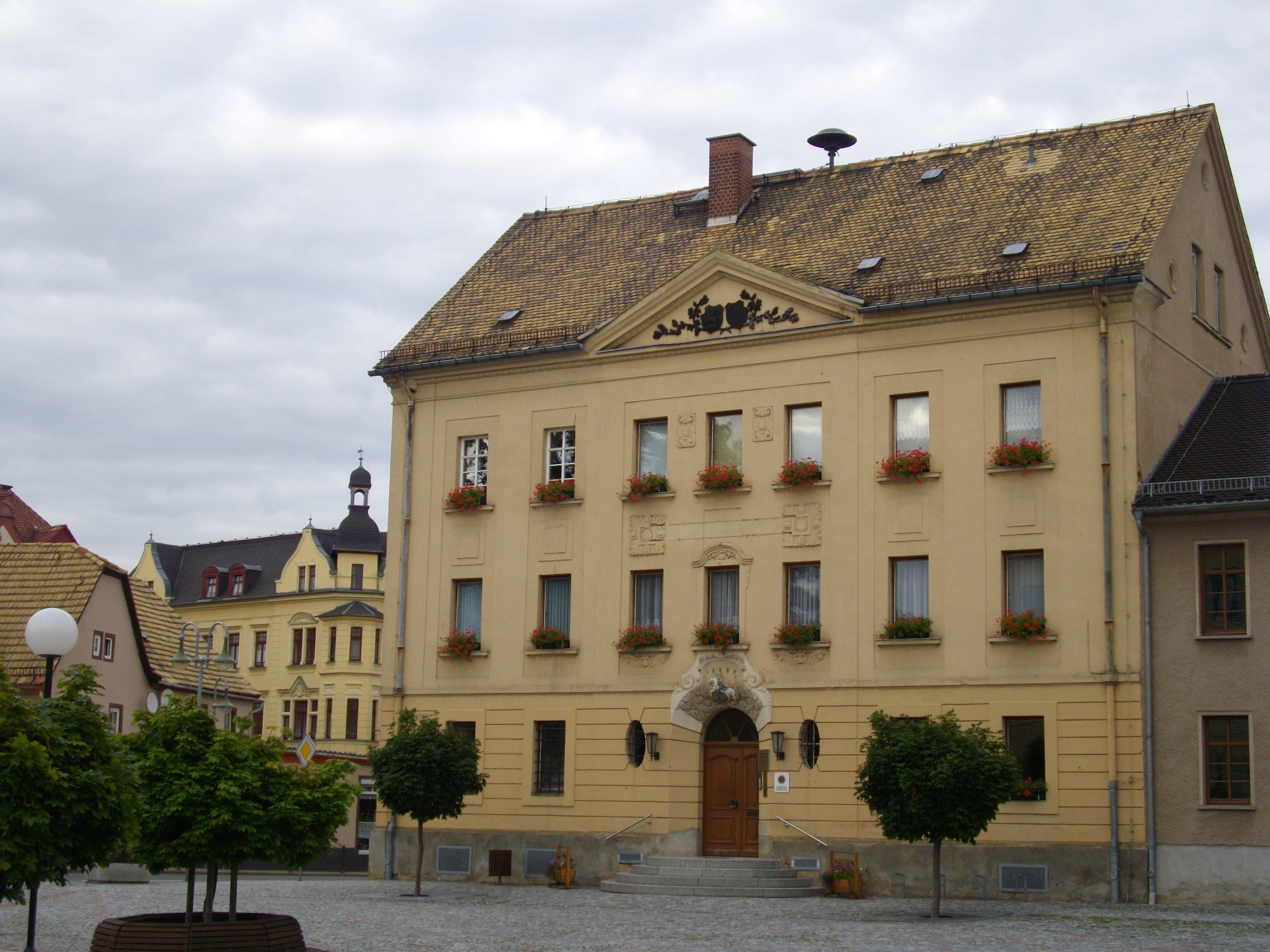 The town hall in Gößnitz/Thuringia in Germany.